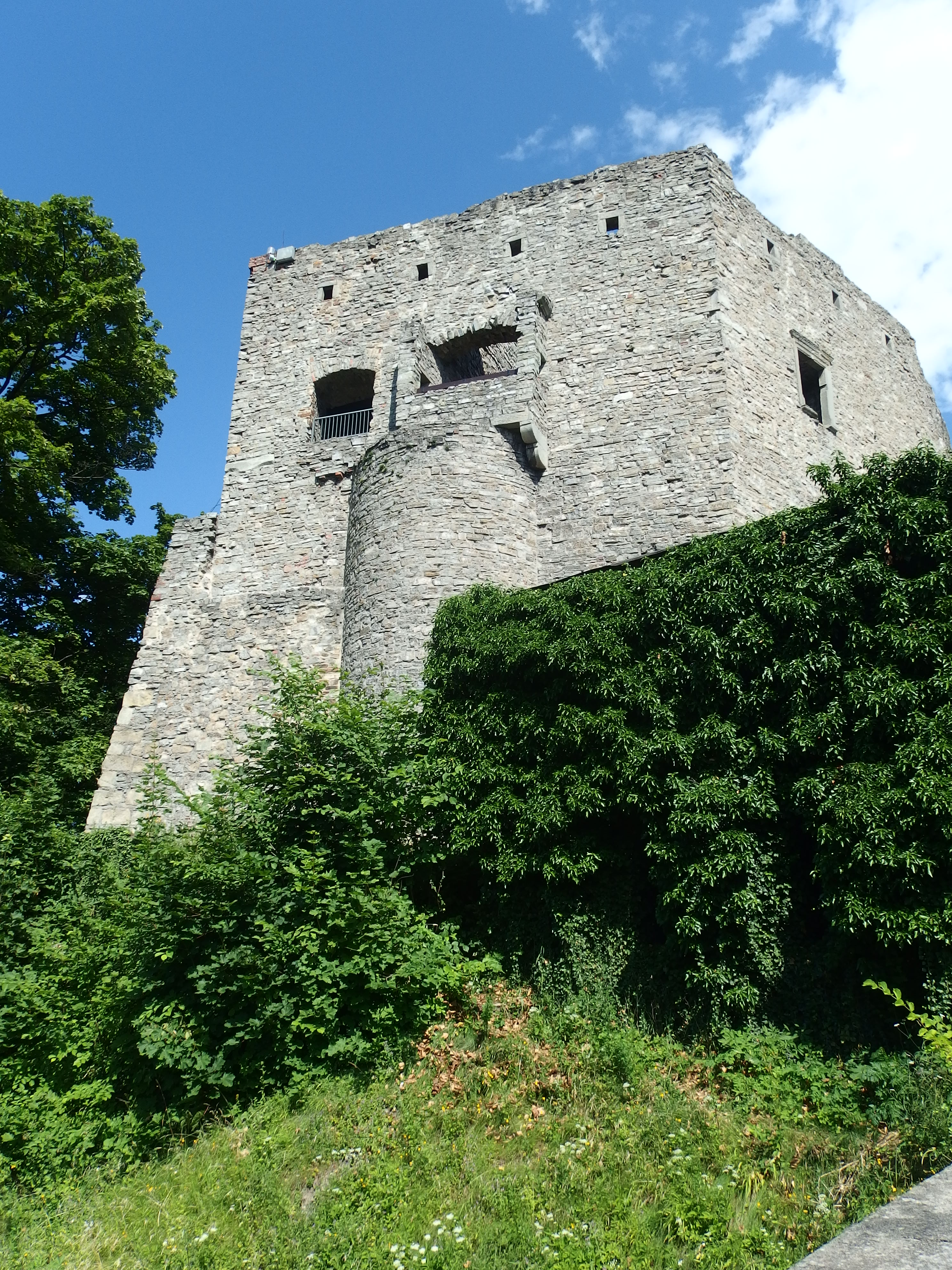 Hukvaldy, Frýdek Místek District, Czech Republic. Castle.